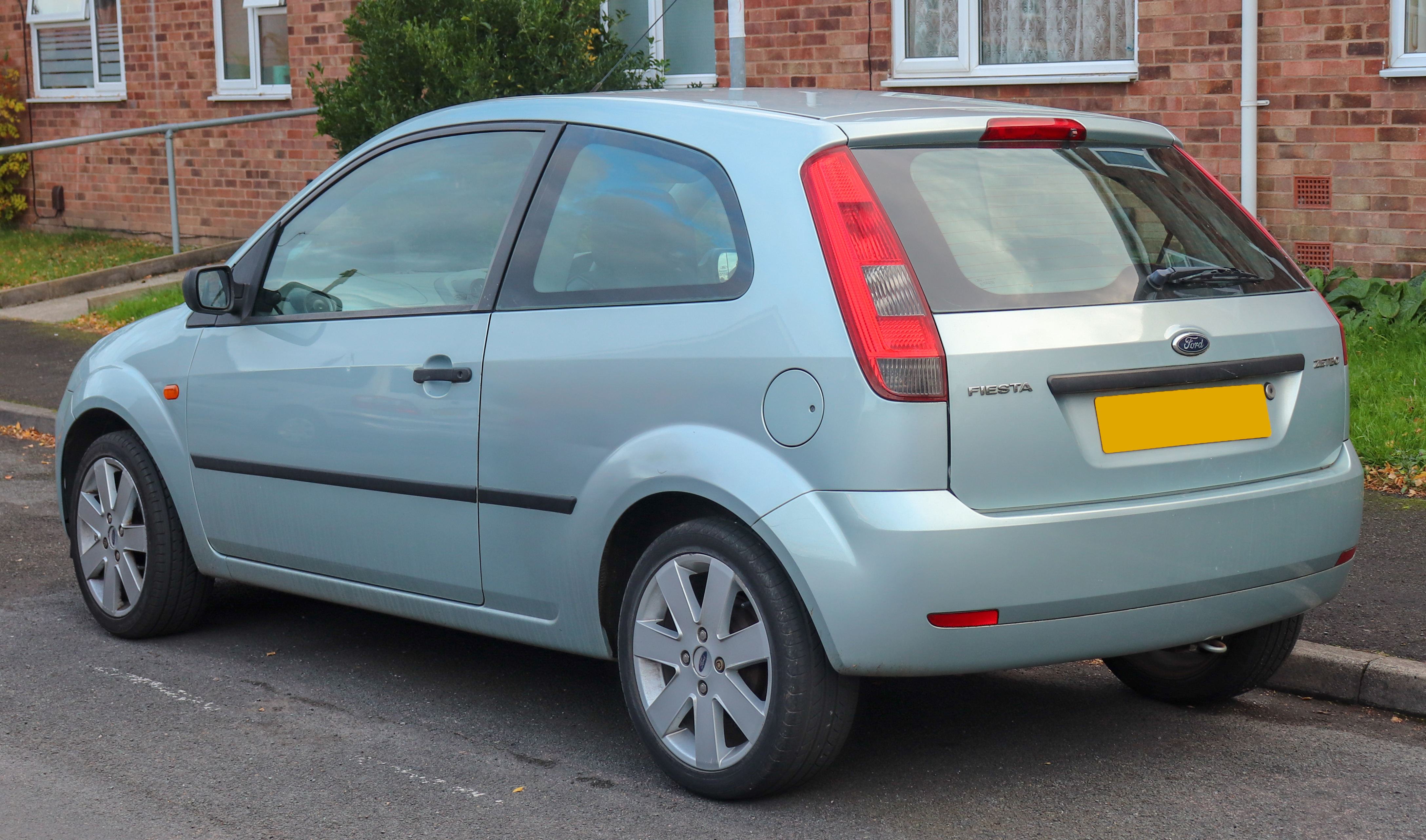 2003 Ford Fiesta Zetec 1.4 Rear Taken in Warwick